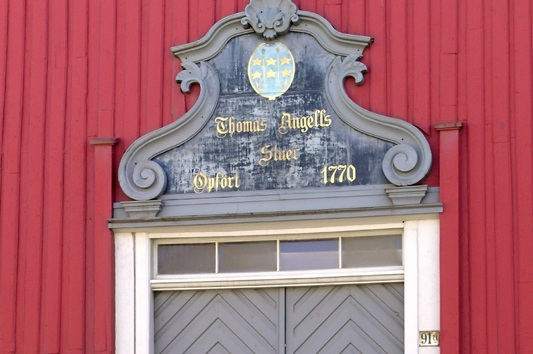 Cropped version of the file 'Thomas Angells Stuer portal'.